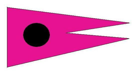 Black Ball Line (1817, New York) house flag